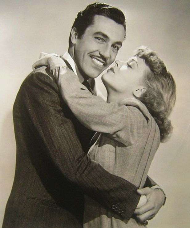 Cesar Romero and Virginia Gilmore in the film Tall, Dark and Handsome (1941) - publicity still (original image cropped : see source)